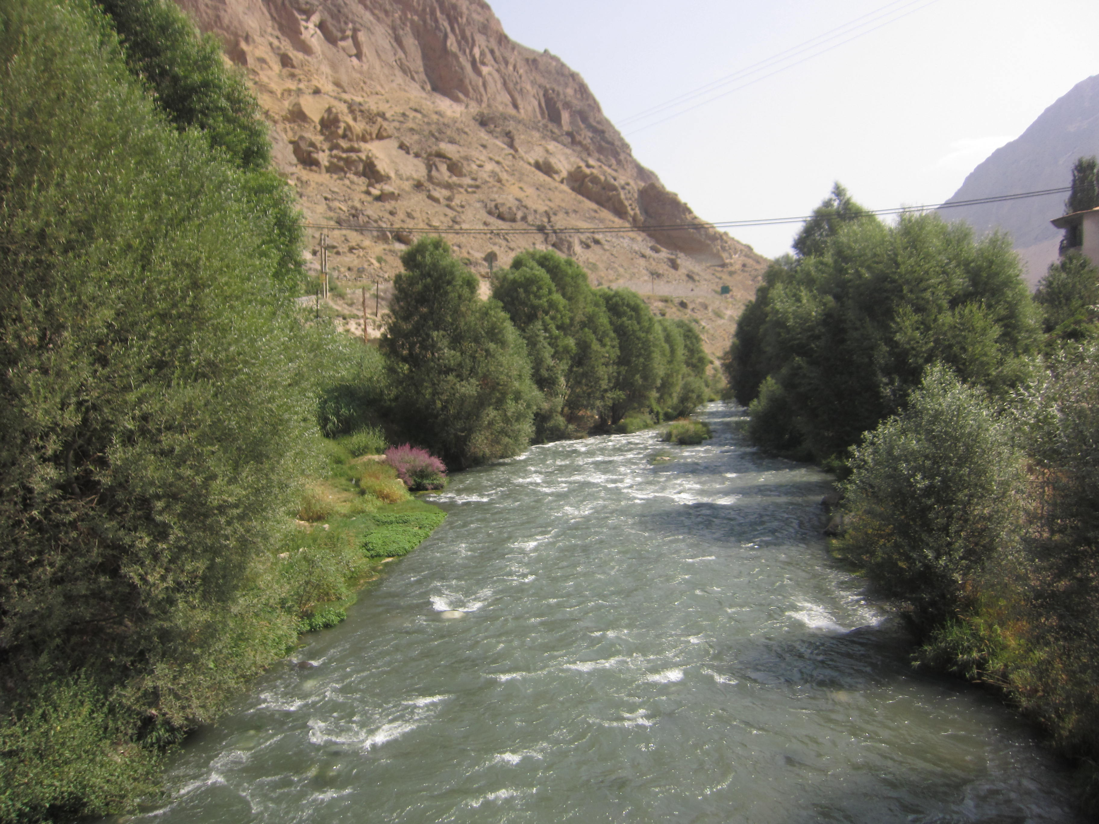 Haraz river near Kandelu village in the middle of summer